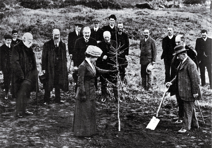 Florence Beswick planting in 1911 in the Christchurch Botanic Gardens